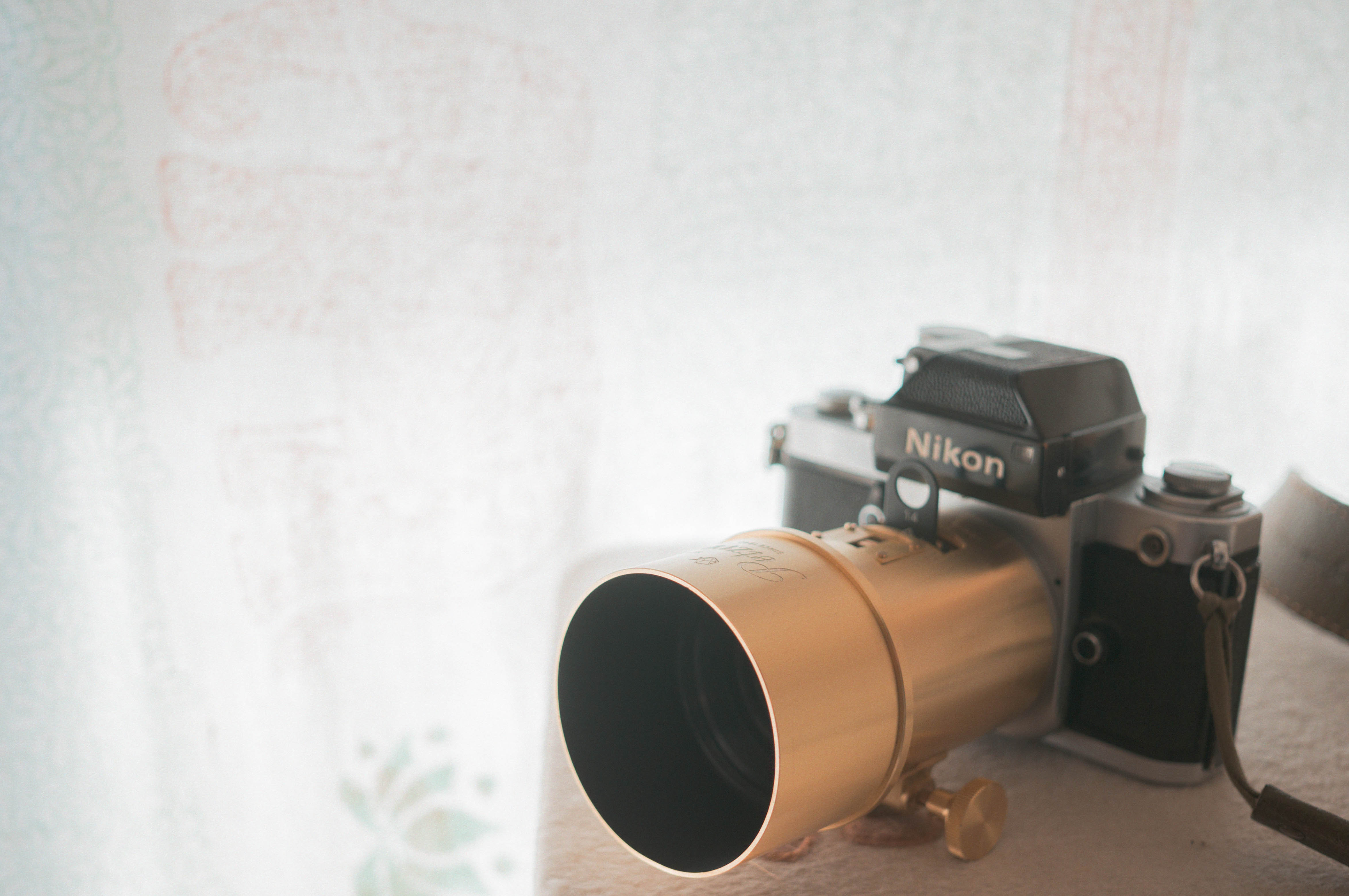 A New Petzval 85mm lens by Lomography mounted on a Nikon F2